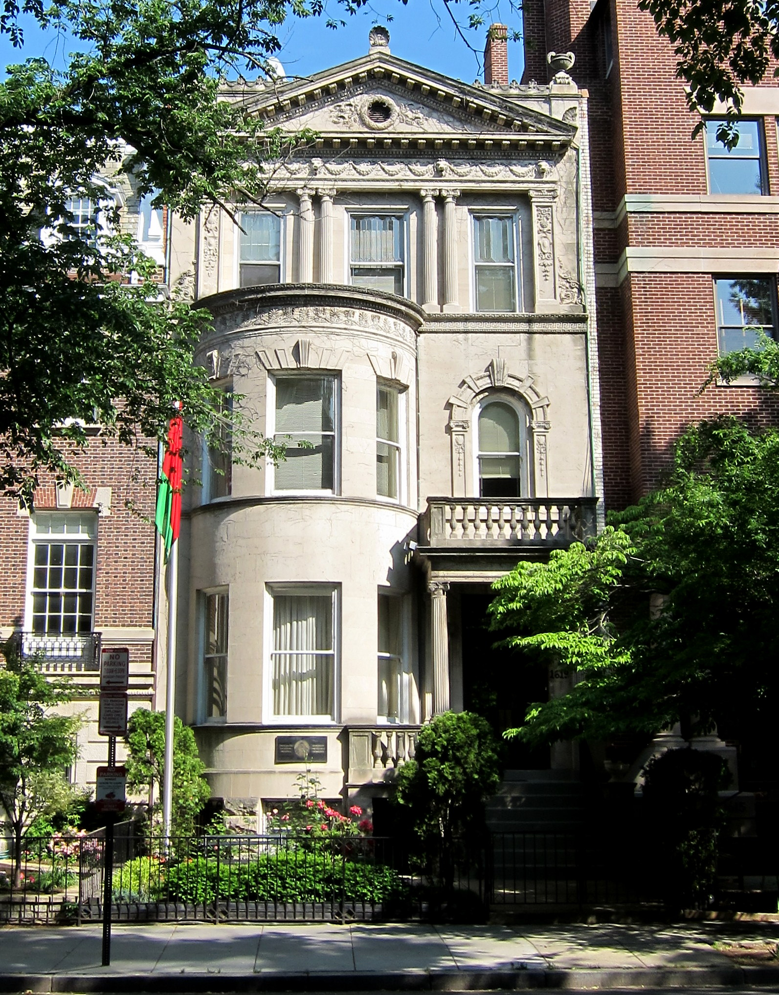 The Embassy of Belarus located at 1619 New Hampshire Avenue NW in the Dupont Circle neighborhood of Washington, D.C. The Beaux-Arts style embassy, built in 1898 as a private residence and designed by Thomas Franklin Schneider, is designated a contributing property to the Dupont Circle Historic District, listed on the National Register of Historic Places in 1978. Past occupants include insurance executive David S. Hendrick (who died in the home and whose funeral was held there), Rear Admiral Edward Hickman Gheen, Captain Clarence Crittenden Calhoun, the Woman's Universal Alliance, businessman John G. Jaeger, the Arctic Institue of North America, the Society of Woman Geographers, and Bring a Parent, Inc.